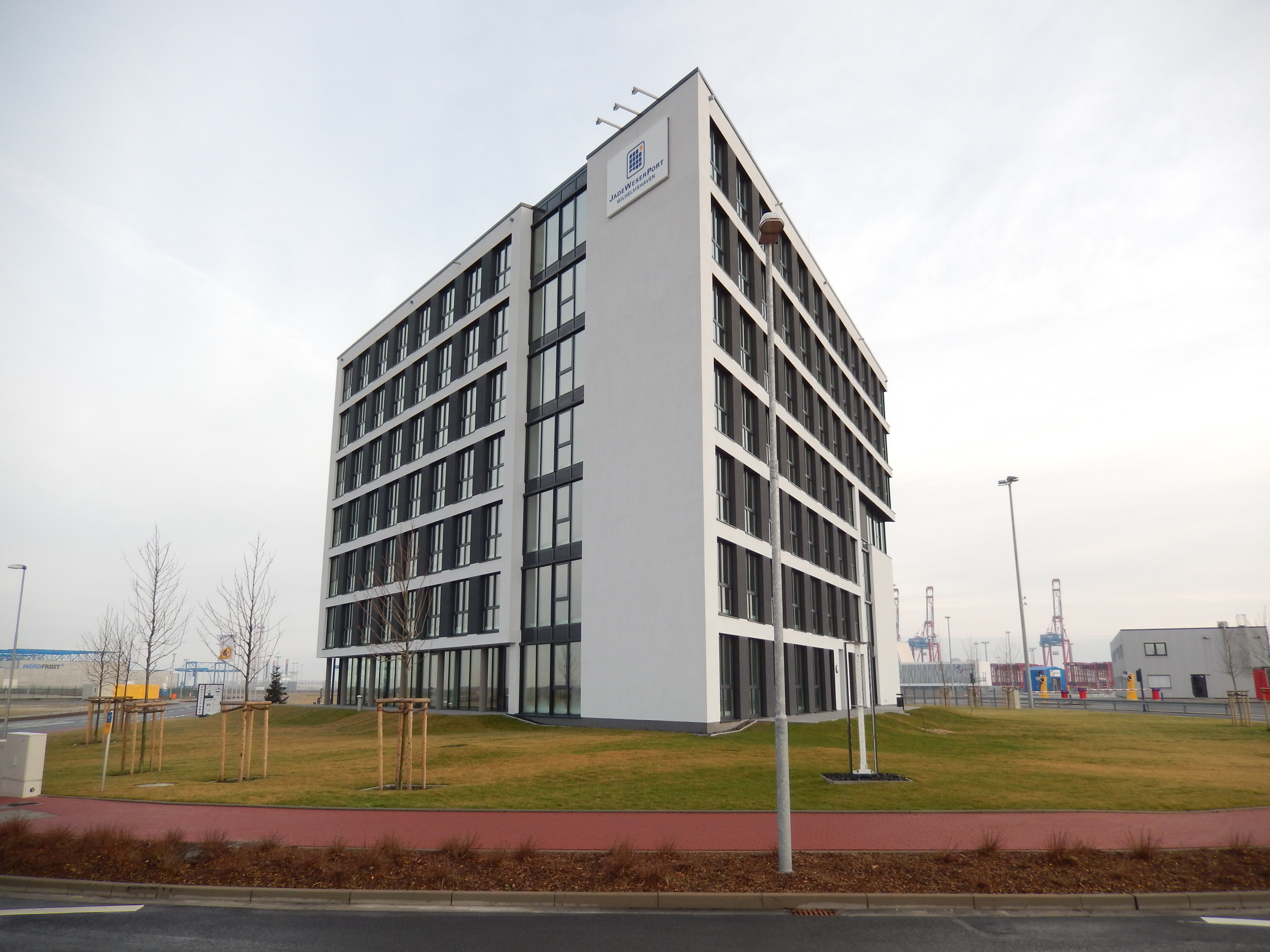 Office building at the Jade-Weser-Port, Wilhelmshaven, Germany.